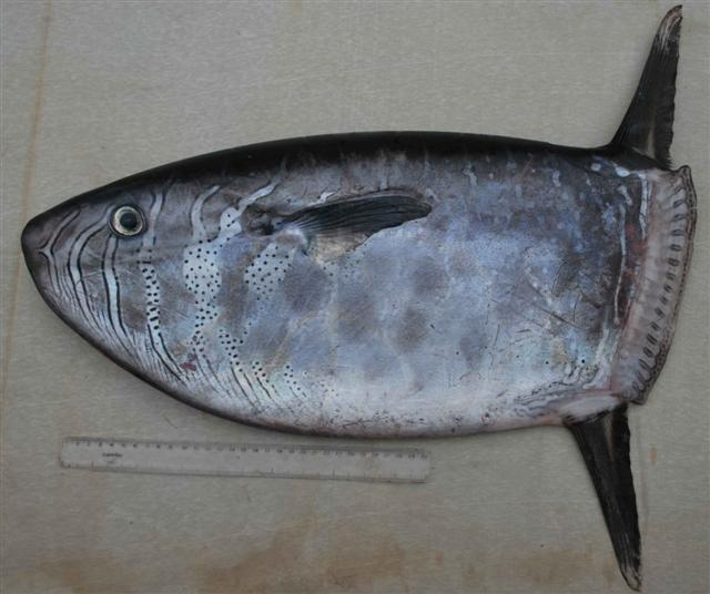 Ranzania laevis collected in Thoothukudi, India.